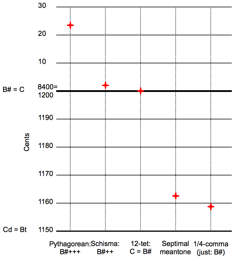 Comparison of notes derived from and near twelve perfect fifths (C G D A E B F# C# G# D# A# E# B#). Pythagorean: 701.96 × 12 = 8423.52 = 1223.52 = 531441/262144 Schisma: (701.96 × 8) + (386.31 × 1) = 5615.68 + 386.31 = 6001.99 = 1201.9537 12-TET: 700 × 12 = 8400 = 1200 = 2/1 Septimal meantone: 696.8 × 12 = 8361.6 = 1161.6 1/4 comma/Just (B#): 696.58 × 12 = 8358.96 = 1158.96 = 125/64